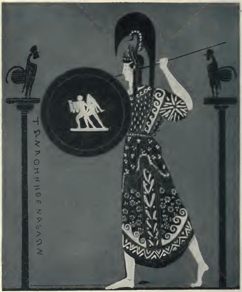 panathenaic amphora British Museum BM_605